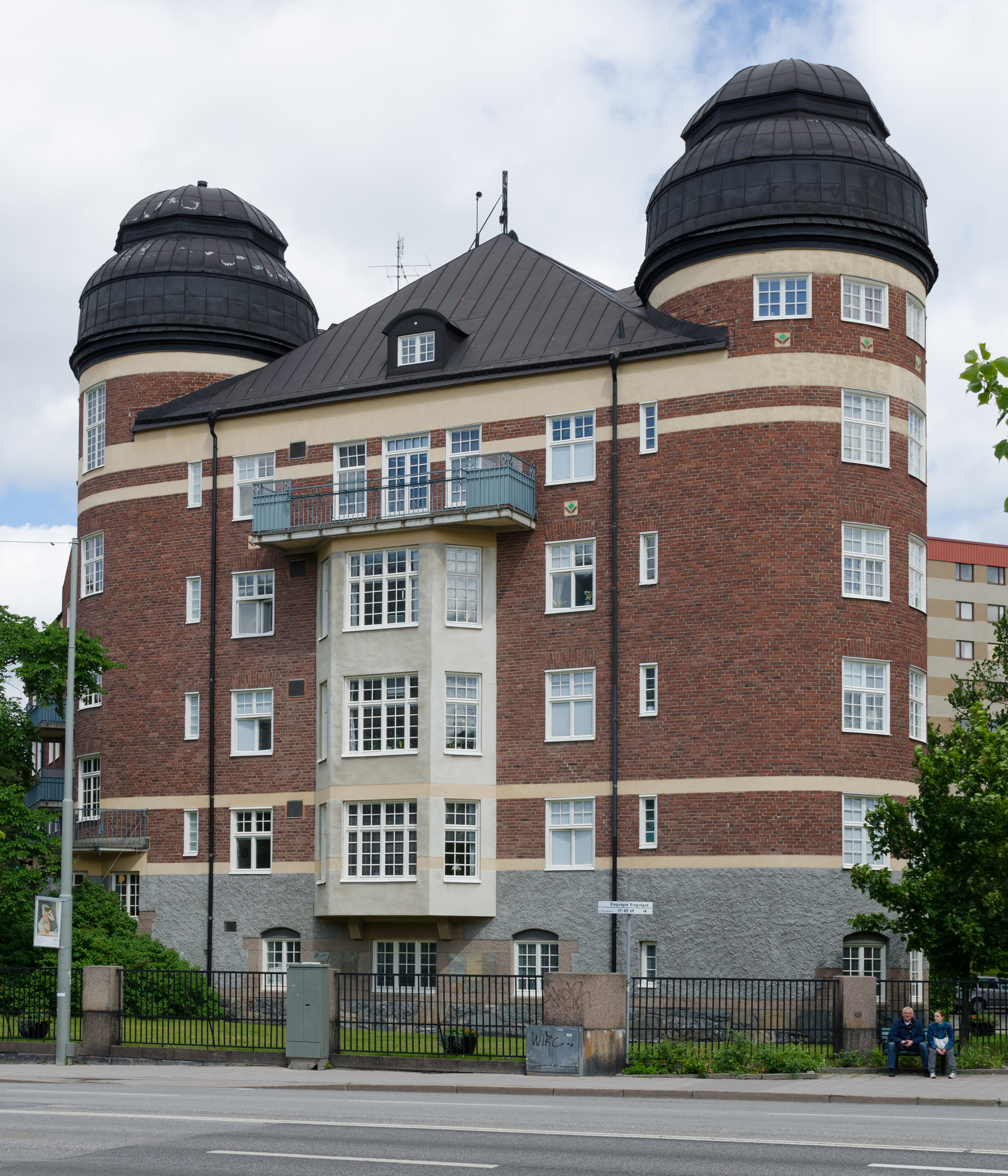 Guldbröllopshemmet ((literally translated in